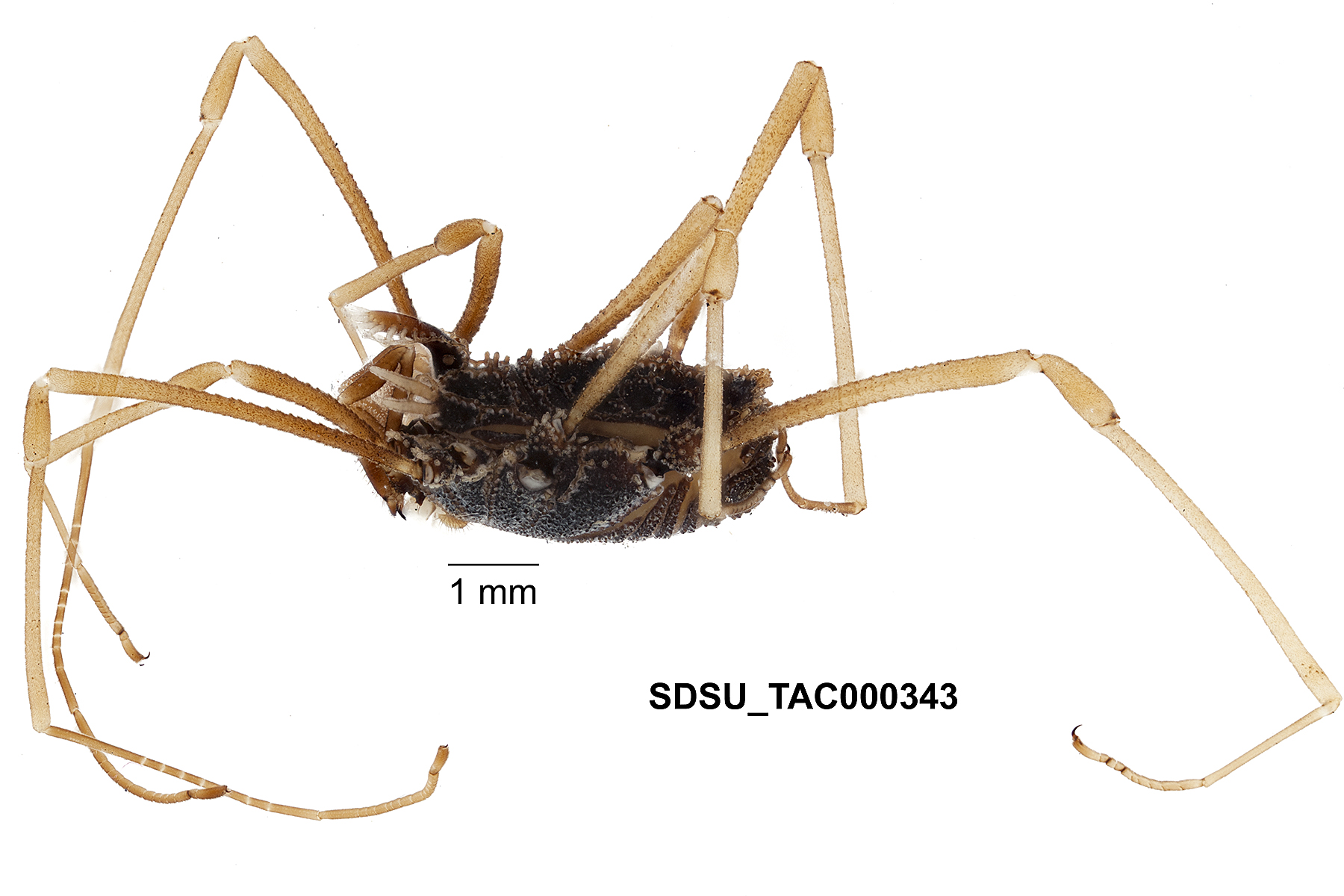 Ortholasma colossus Shear, 2010; PRESERVED_SPECIMEN; MALE; ADULT; 03/04/2013 00:00; Identified by: M Hedin